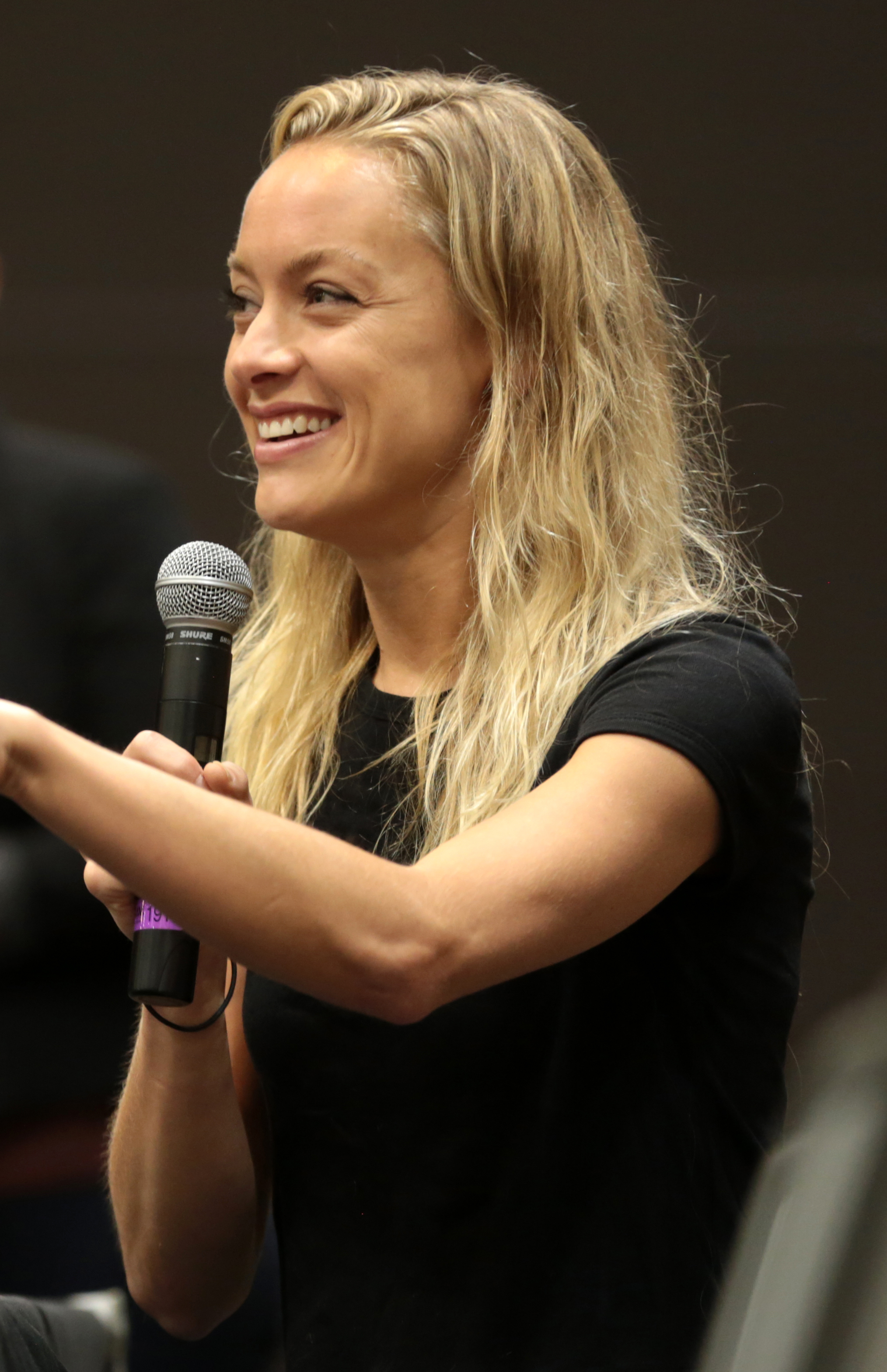 Rachel Skarsten speaking at the 2017 Phoenix Comicon in Phoenix, Arizona.